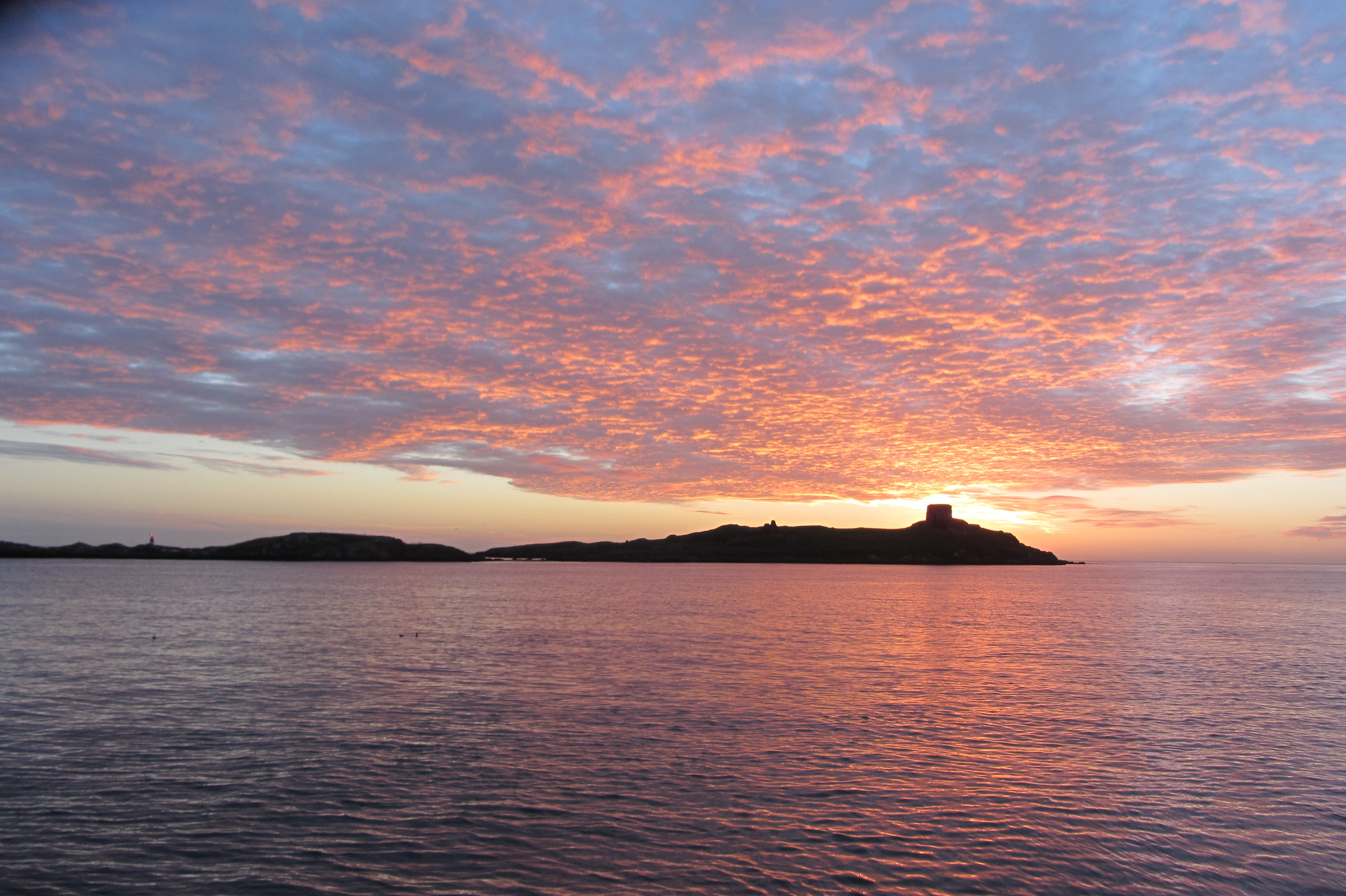 Dalkey Island Church